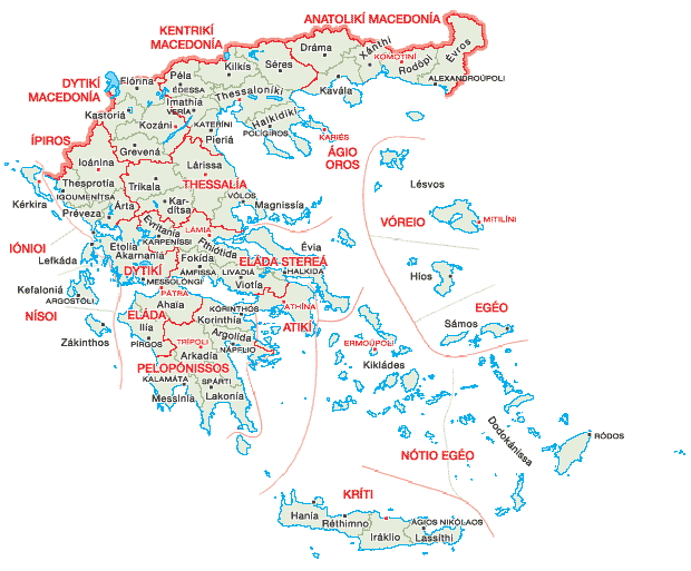 Map of Greece, its prefectures and major cities.